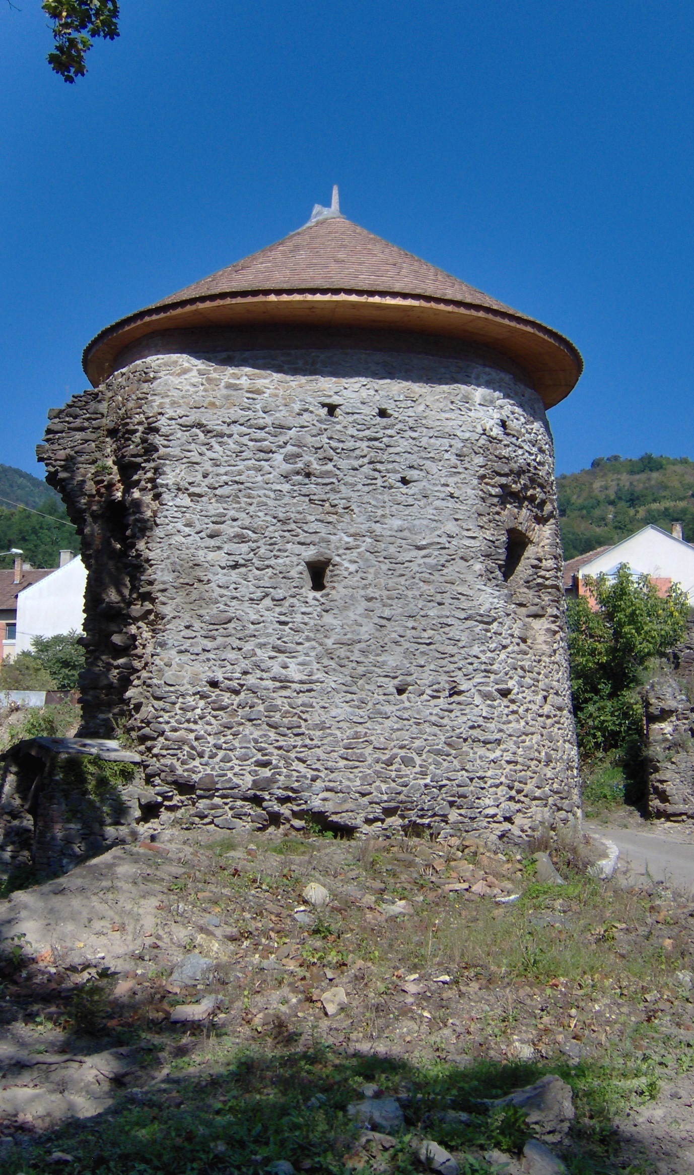 Báthory Castle in Şimleu Silvaniei